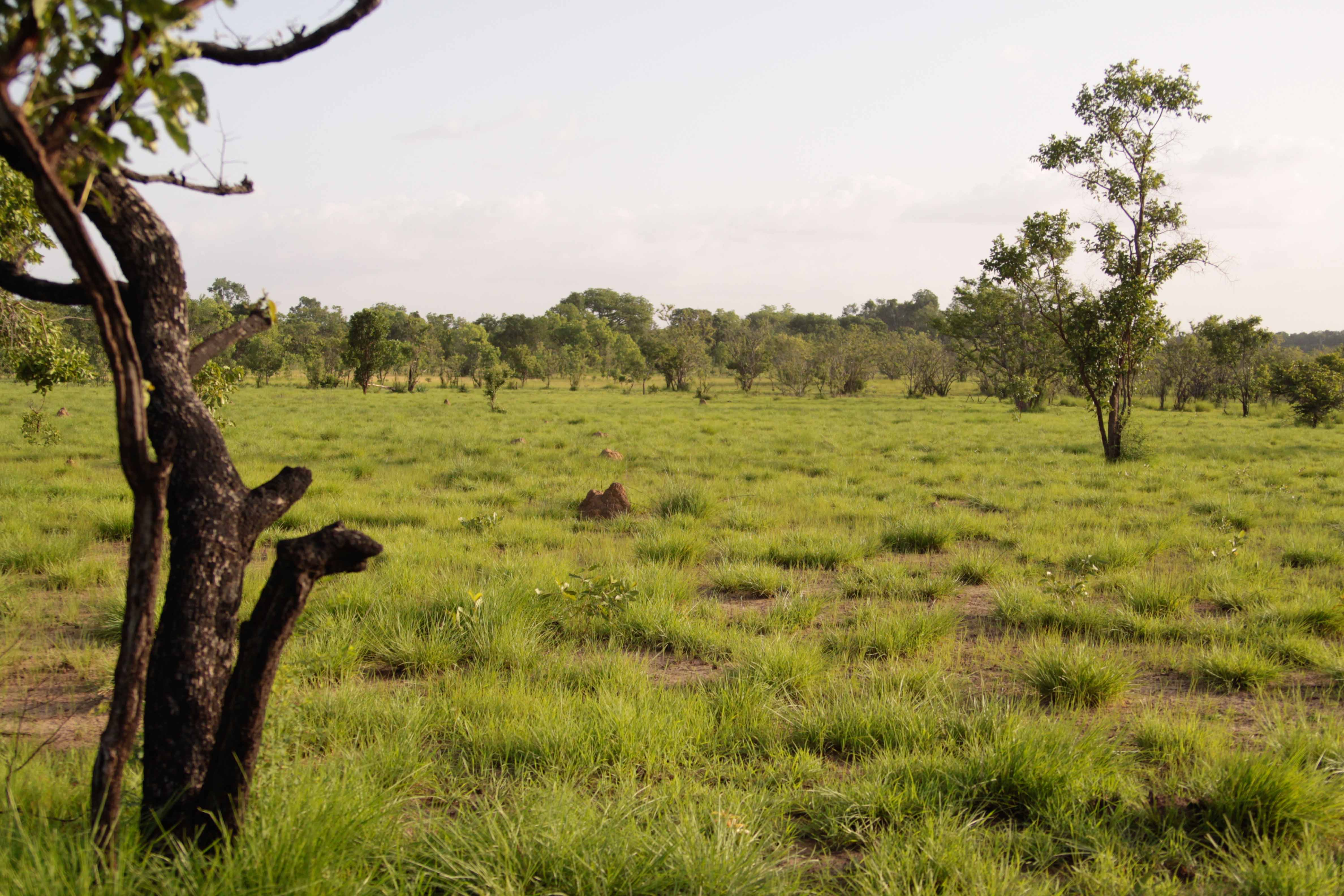 Comoe Open Savannah